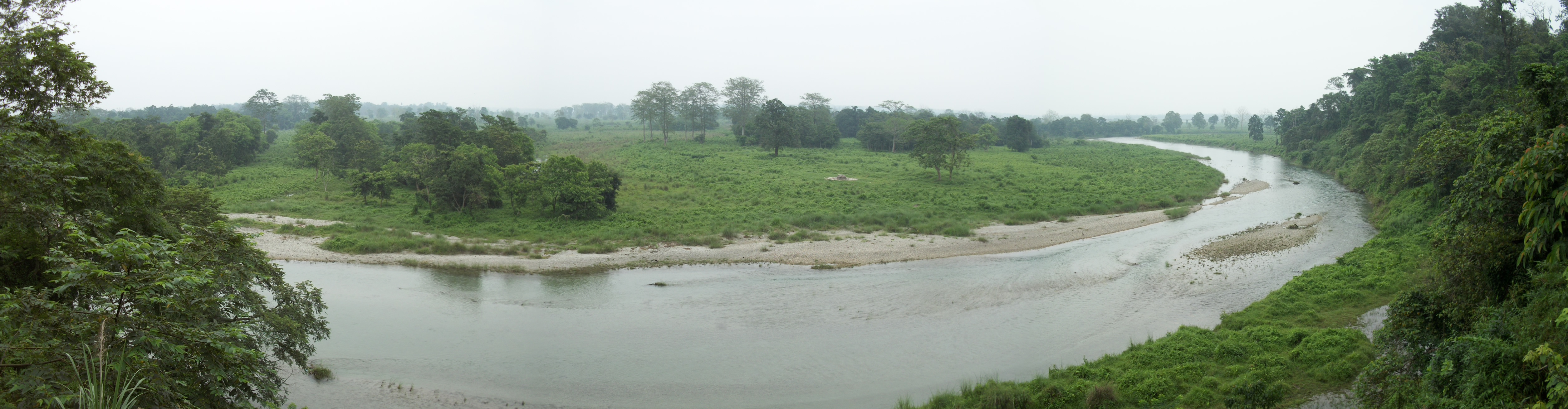 A panoramic view of the Gorumara National Park from Jatraprosad Watch Tower.